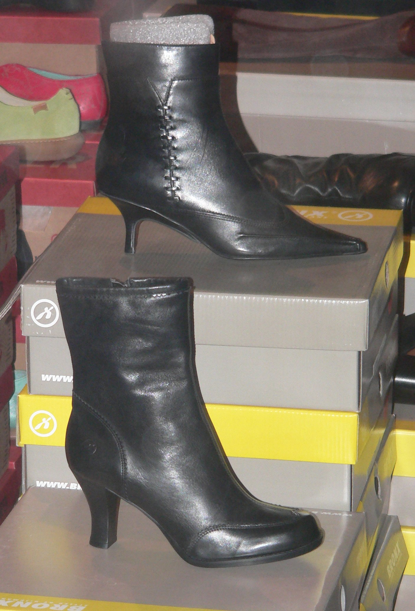 Elements of Gothic fashion